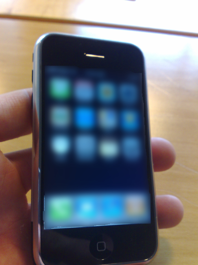 The UI is fast and beatiful, but its camera is terrible. Great work, Apple engineers!